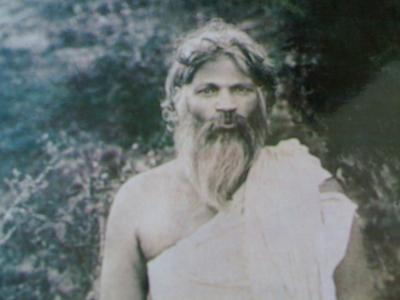 My own Collection